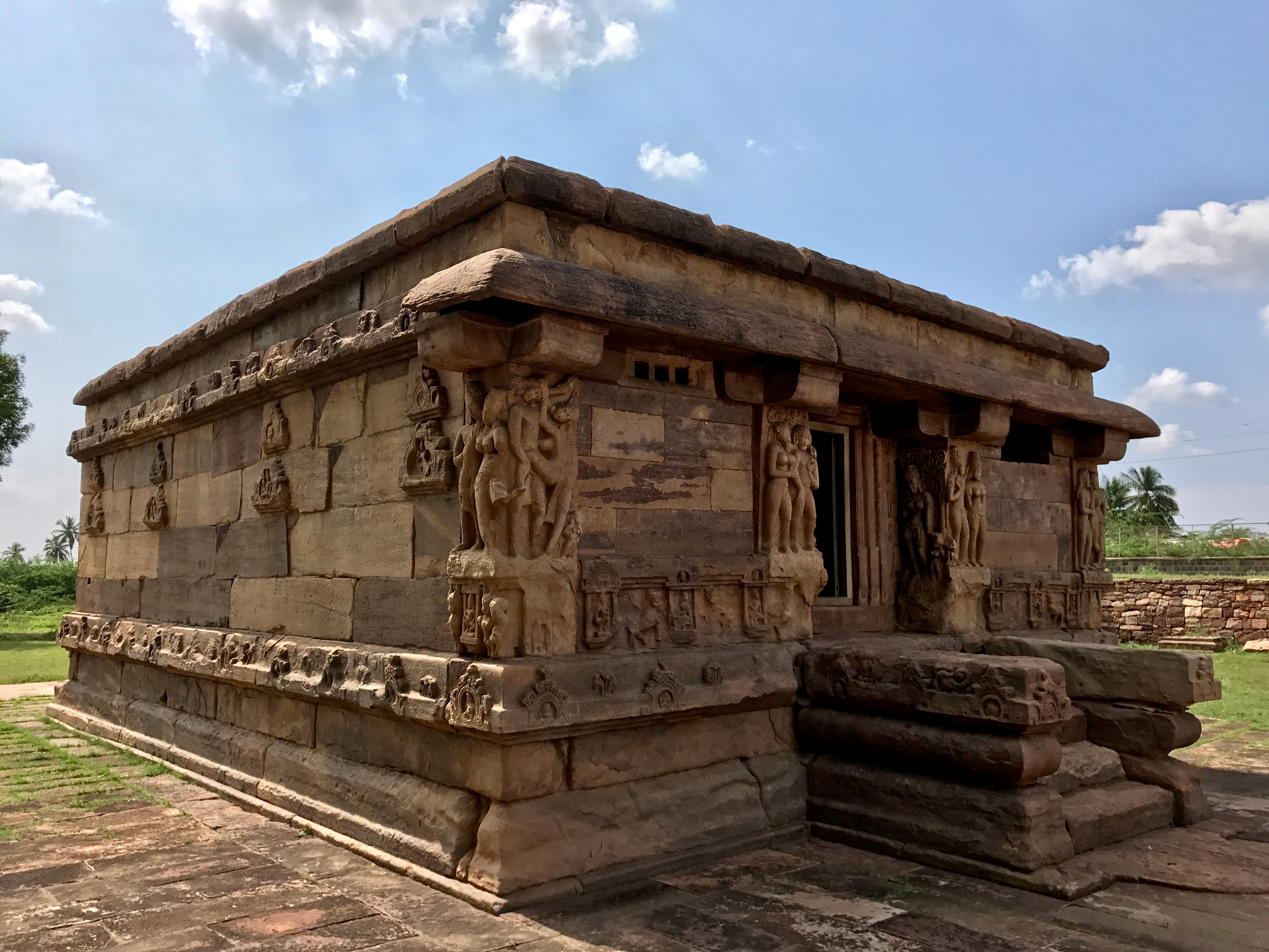 Aihole temples and monuments, also called Aivalli or Ayyavole or Aiholi temples and monuments, are a collection of over 100 temples built predominantly between 6th and 8th century near Malaprabha river in Karnataka. At this point, the river turns northwards towards the Himalayas which likely had significance as a location. Though defaced and damaged after the region was conquered by Muslim commanders of the Delhi and Bijapur Sultanate, the collection is one of the earliest surviving temples and window to ancient Indian arts, religious beliefs, society and architecture. Almost all temples are related to Hinduism, but these co-exist with a few Jain temples of this period and one Buddhist monument. Both north Indian and south Indian styles fuse here, with monuments suggesting experimentation of ideas and building styles under the sponsorship of late Gupta period Hindu kingdoms, particularly the Calukyas and Rashtrakutas. The Huchappaya matha temple is a smaller temple west of the main collection of Aihole monuments. The temple has two main buildings, the first a Shiva temple, the second a simpler monastery style covered building. The Shiva temple has many kama scenes of couples in various stages of courtship and amorous relationship. The entrance has Ganga and Yamuna goddesses standing. Inside, the ceiling has artwork depicting Brahma, Shiva and Vishnu. A seated Nandi faces the Shiva linga. There are additional intricate carvings inside the temple.